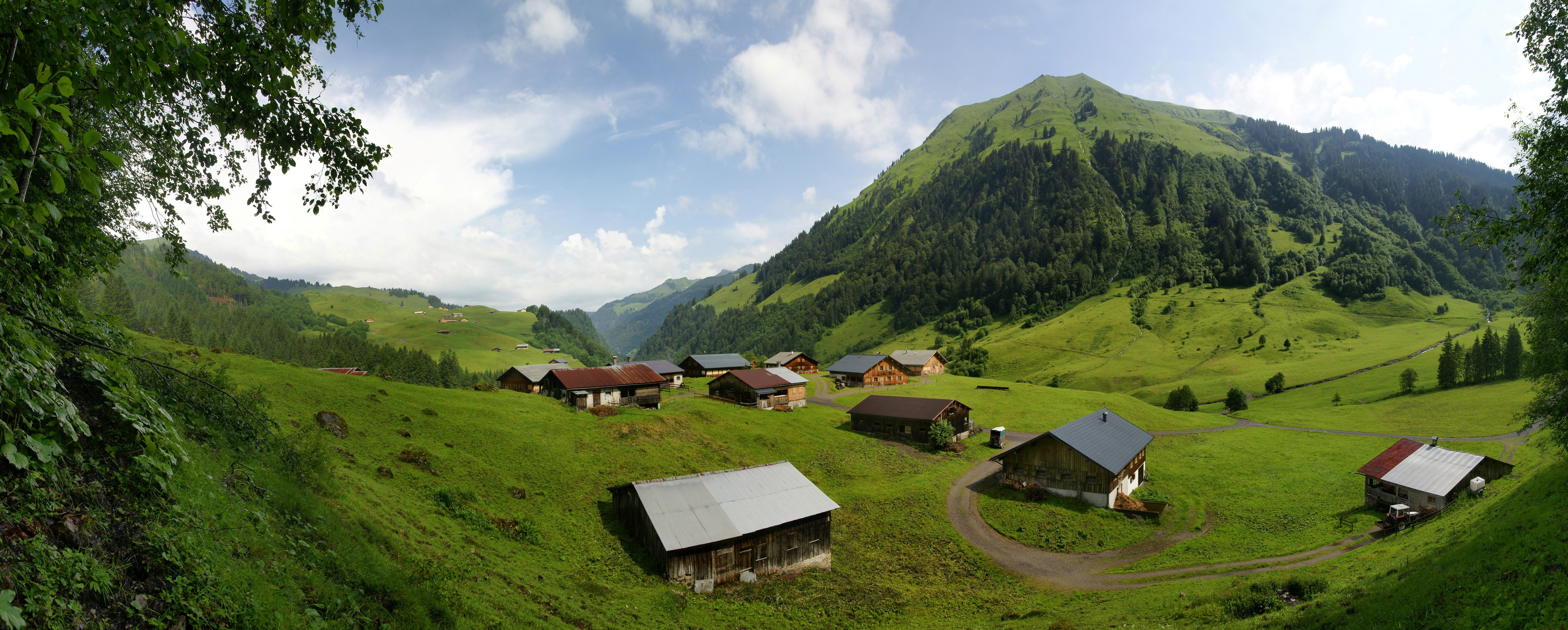 180 ° panorama on the Alps Vorderhopfreben with a view of the higher-lying Alps Schalzbach in Schoppernau. Both settlements are in stage two of the three-stage Transhumance in the Alps. Right in the picture Üntschenspitze 2,135m.